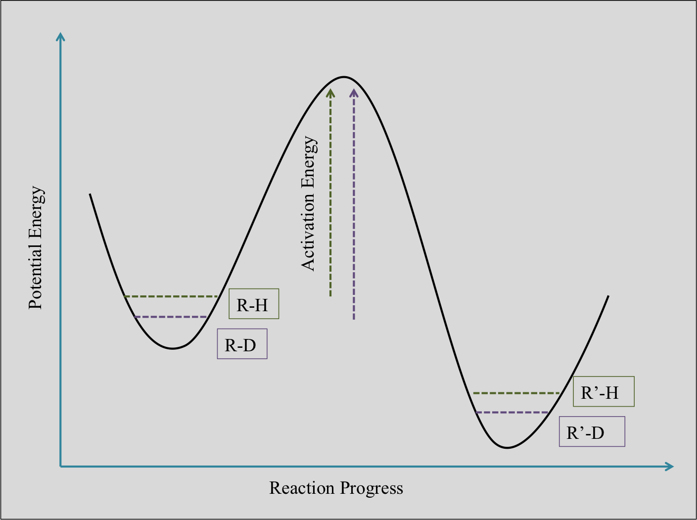 A simplified model of a chemical reaction with pathways for H and D isotopes of hydrogen. The positions on the energy wells are based on the quantum harmonic oscillator. Note the lower energy state of the heavier isotope and the higher energy state of the lighter isotope. Under equilibrium conditions, the heavy isotope is favored in the products as it is more stable. Under kinetic conditions, like an enzymatic reaction, the lighter isotope is favored because of a lower activation energy.